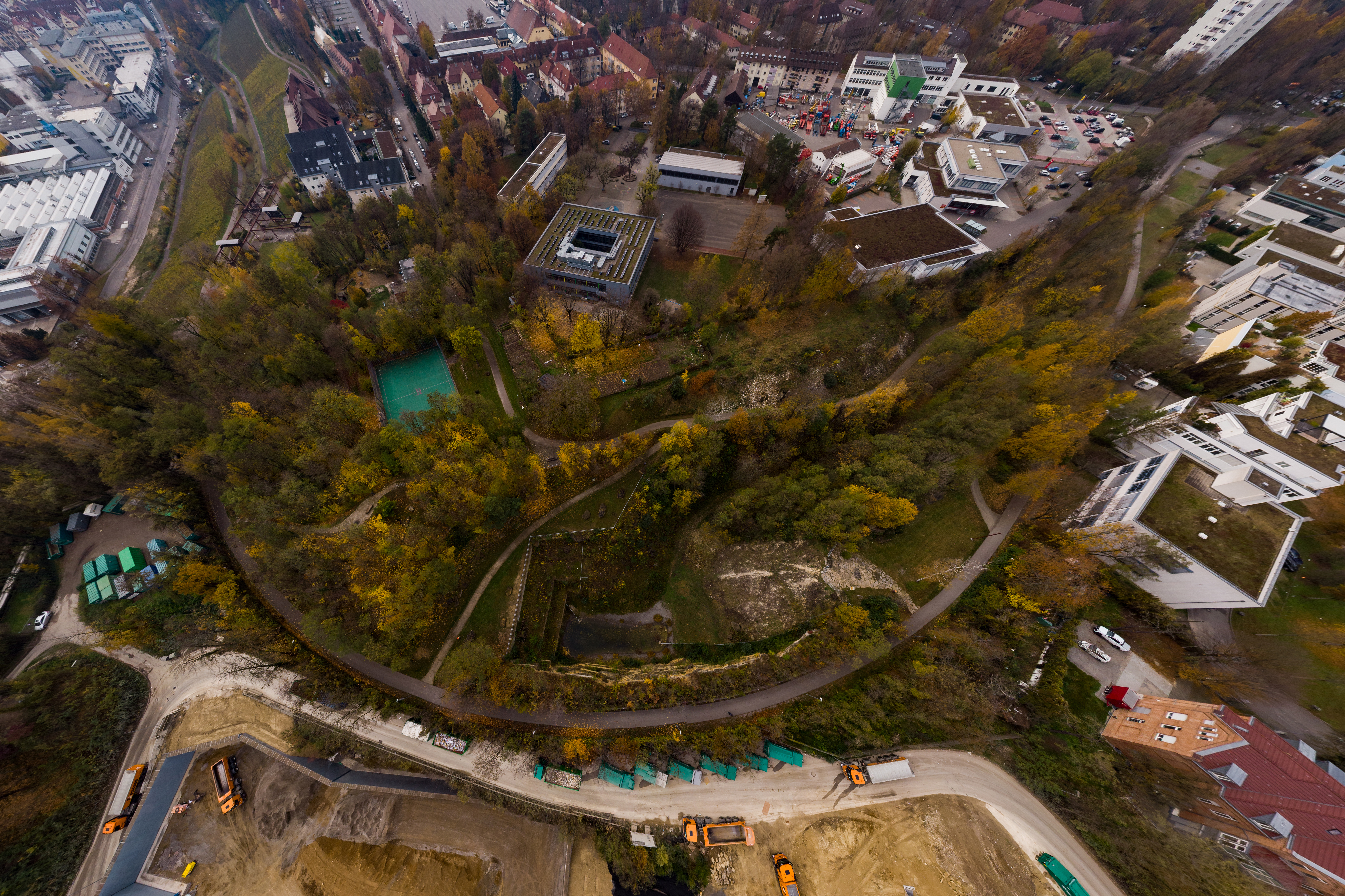 Travertinpark, a park in the district of Münster in Stuttgart, Germany. Crop of spherical panorama shot by drone.